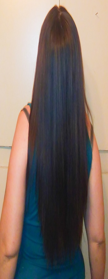 Sabrina Mejias